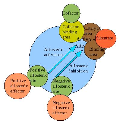 Diagram of an enzyme showing allosteric regulation